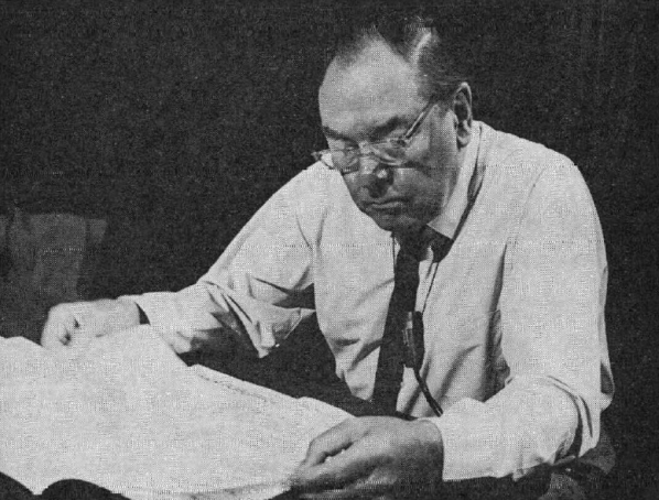 Photograph of the British pianist Gerald Moore (1899–1987) during his visit to Finland.